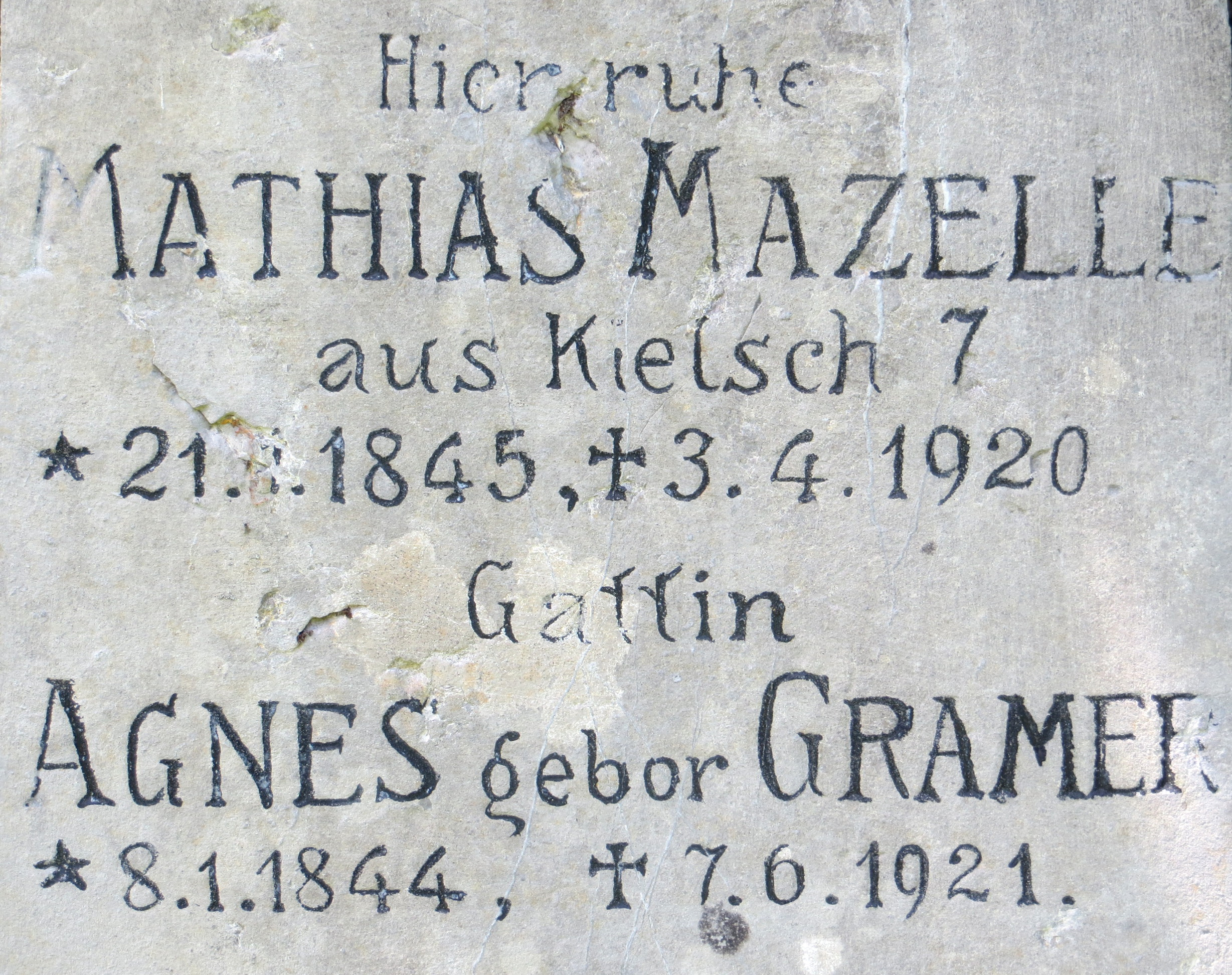 Gravestone at Prophet Elijah Church in Planina, Municipality of Semič, Slovenia with the German place name Kletsch (Slovenian: Kleč)